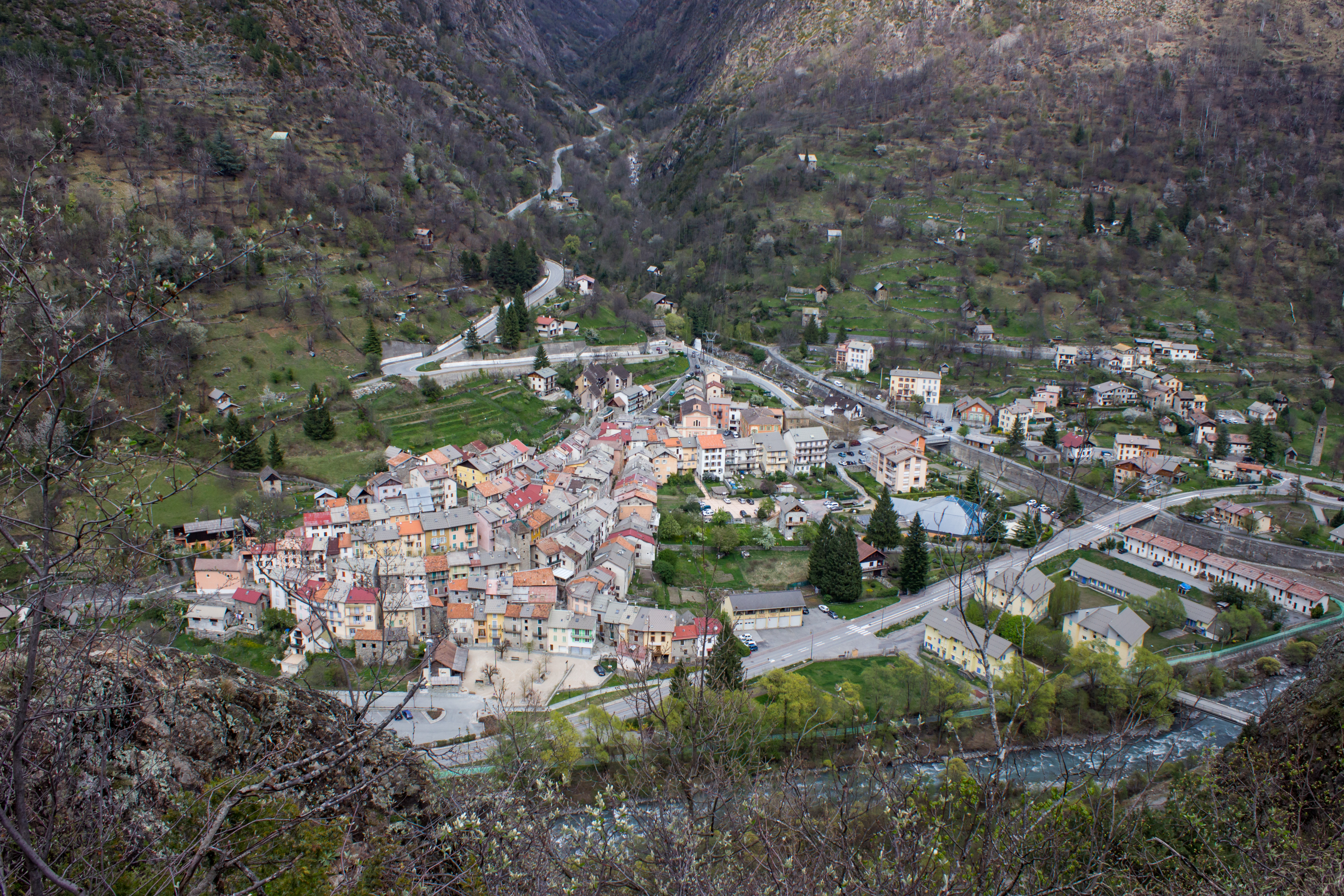 Isola is a small village in the Alpes Maritimes, Southeast of France